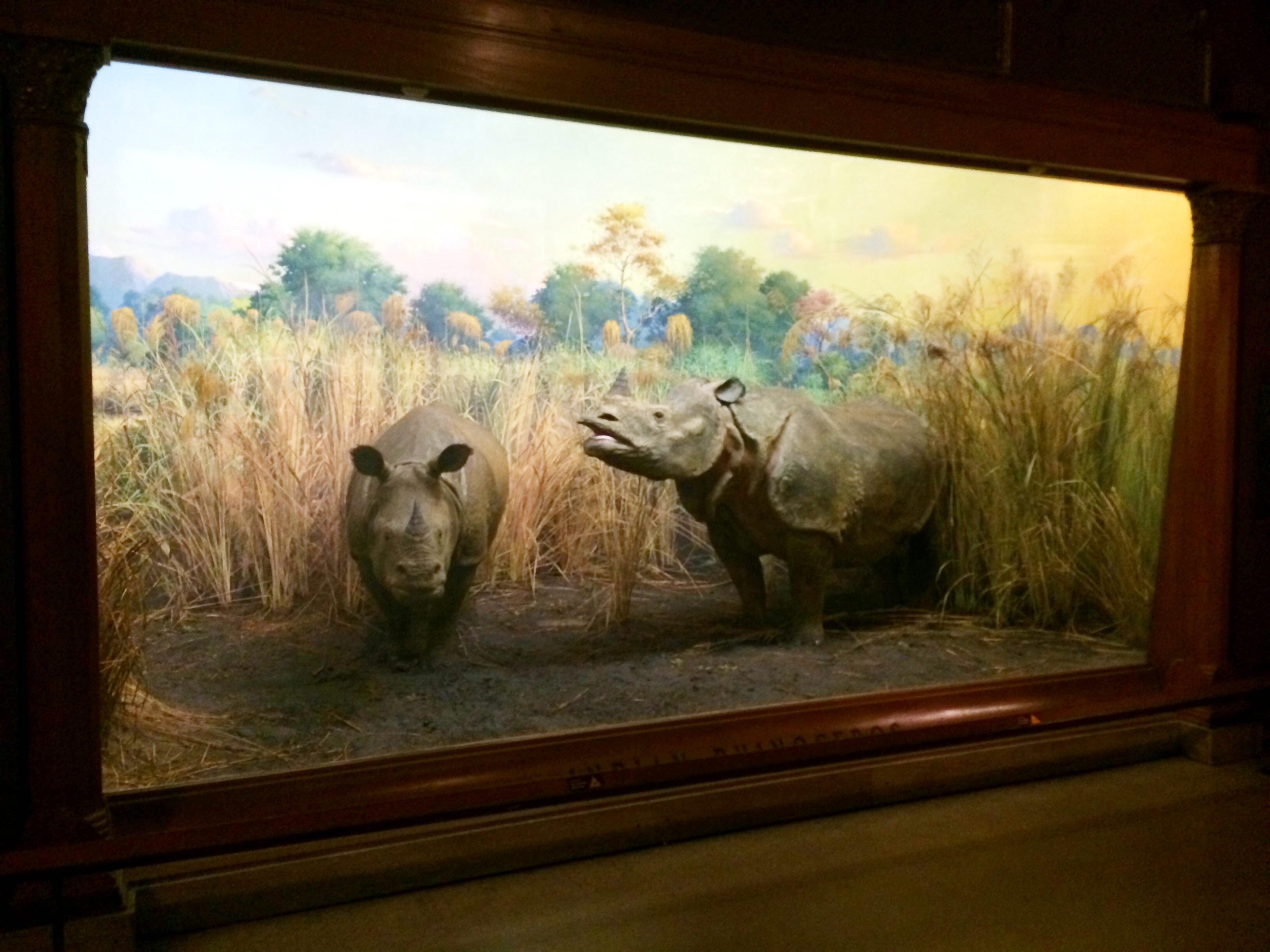 Image of the Indian Rhinoceros diorama at Vernay-Faunthorpe Hall of Asian Mammals, American Museum of Natural History